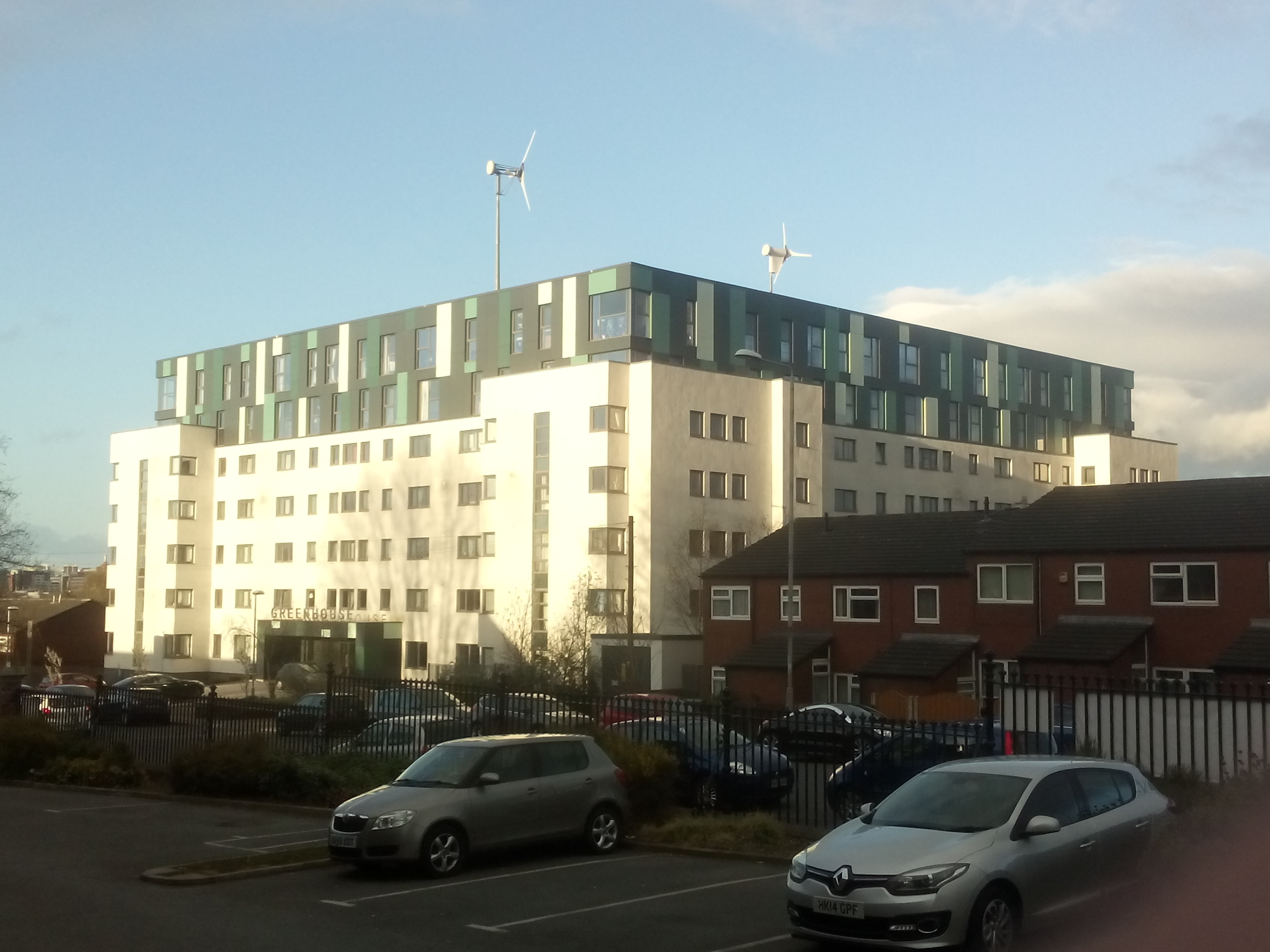 Greenhouse, Beeston, Leeds, west (front) and south elevations.